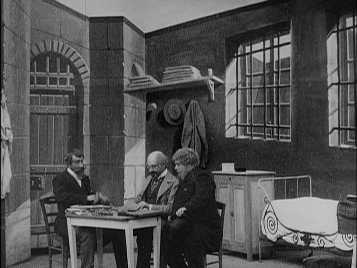 Frame from Entrevue de Dreyfus et de sa femme (prison de Rennes), an installment of Georges Méliès's L'affaire Dreyfus series (1899). Méliès, at left, plays Fernand Labori.